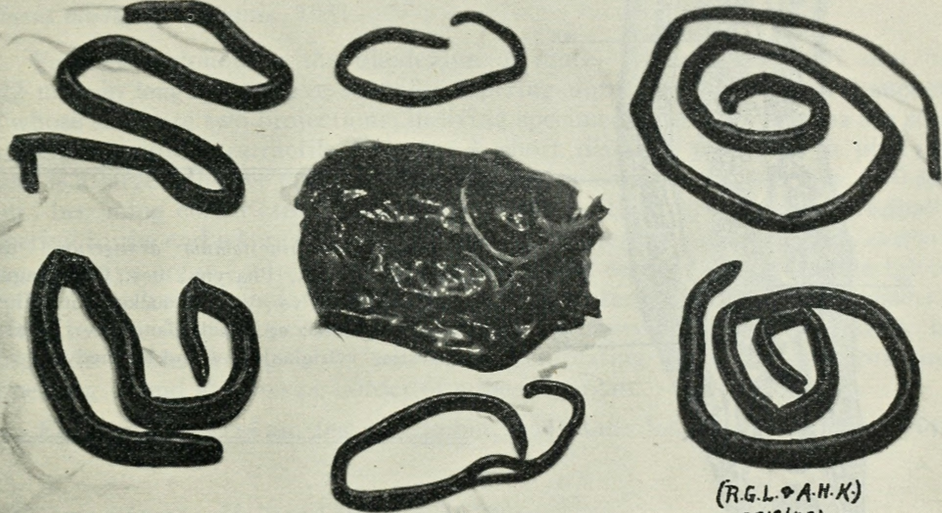 Dioctophyme renale. Two males and four females. Cystic kidney showing bony deposits. (Original, Law and Kennedy.). Image from page 430 of "Annual report of the Game and Fisheries Department of Ontario, 1921-34"